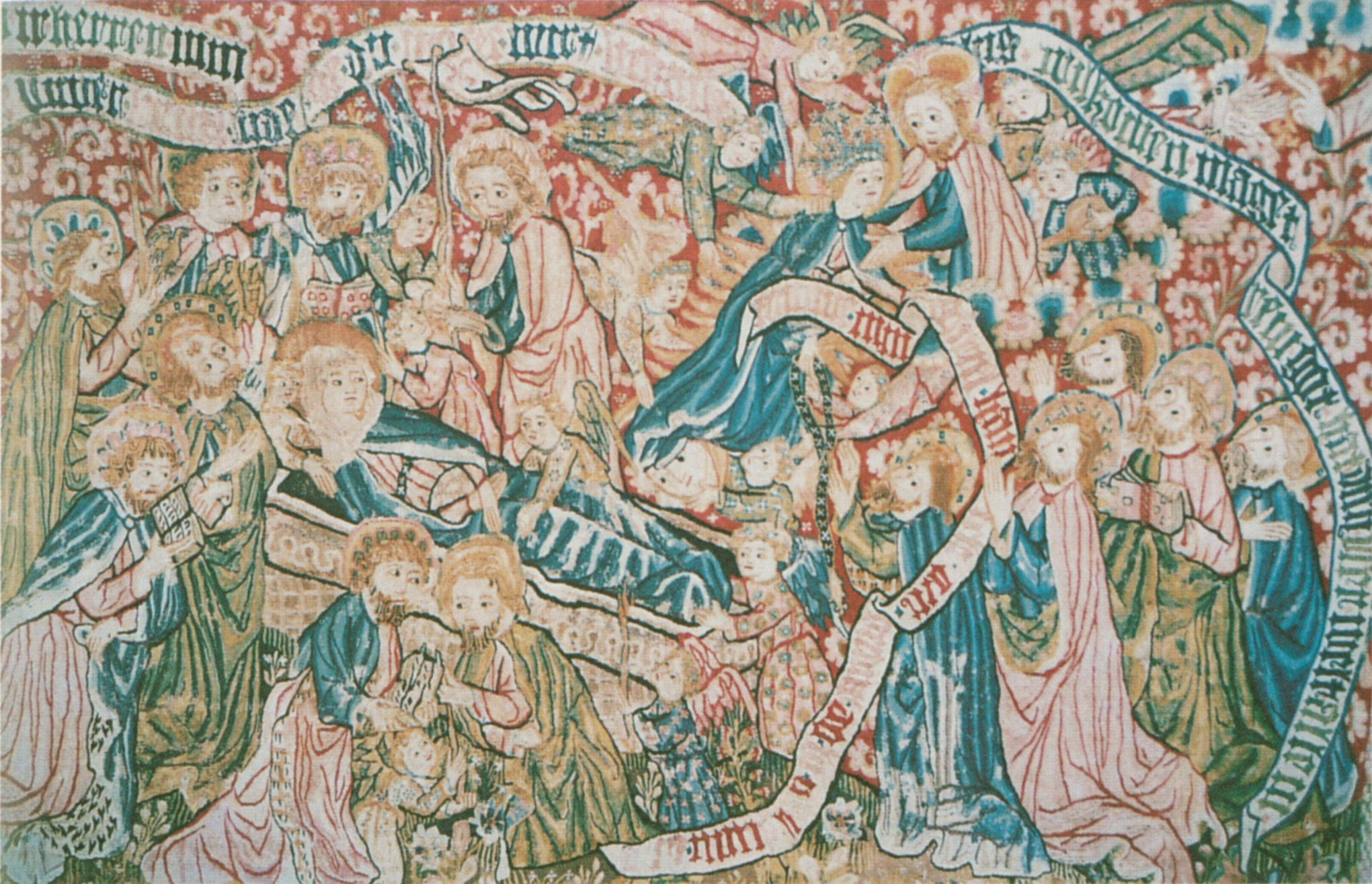 Carpat from about 1470 made in Poor Clares monastery Gnadental in Basel but found after the reformation in Pfaffenweiler, Baden-Württember, Germany. Right-hand part